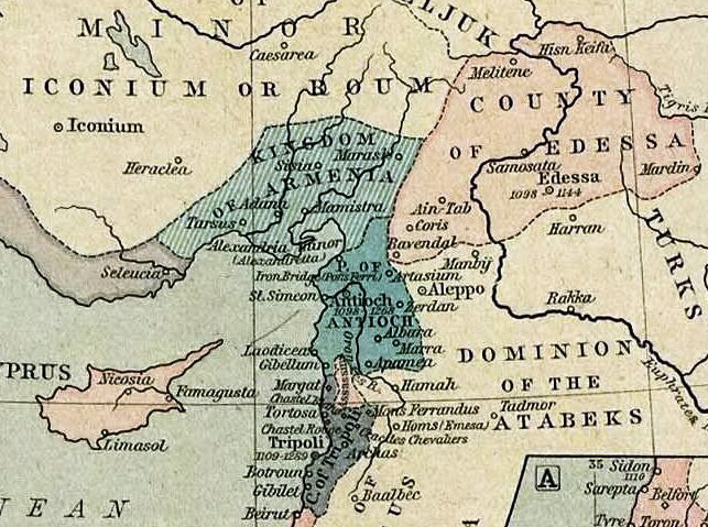 Cilician Armenia from map "Asia Minor and the States of the Crusaders in Syria, about 1140"